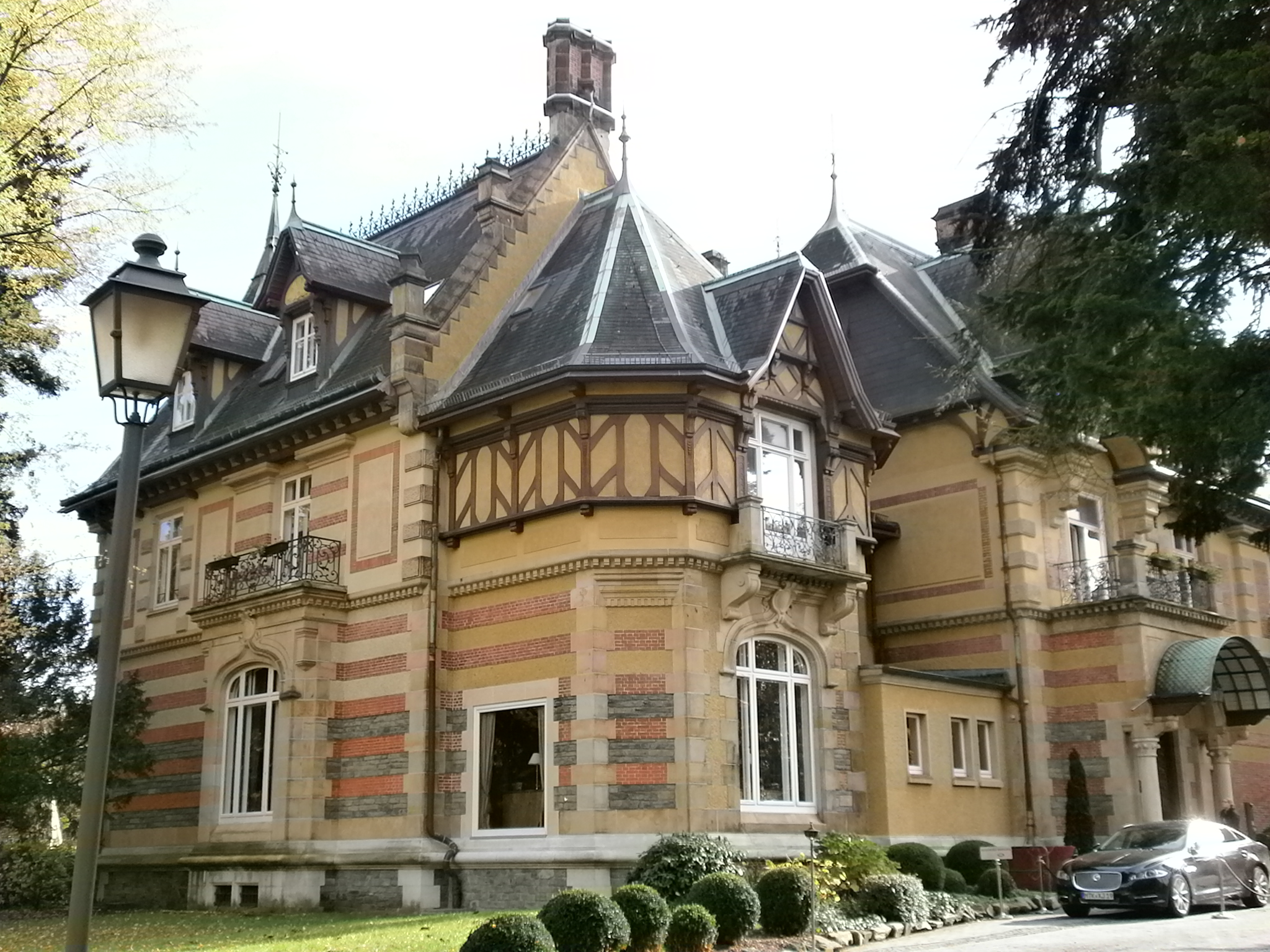 Villa Rothschild Kempinski